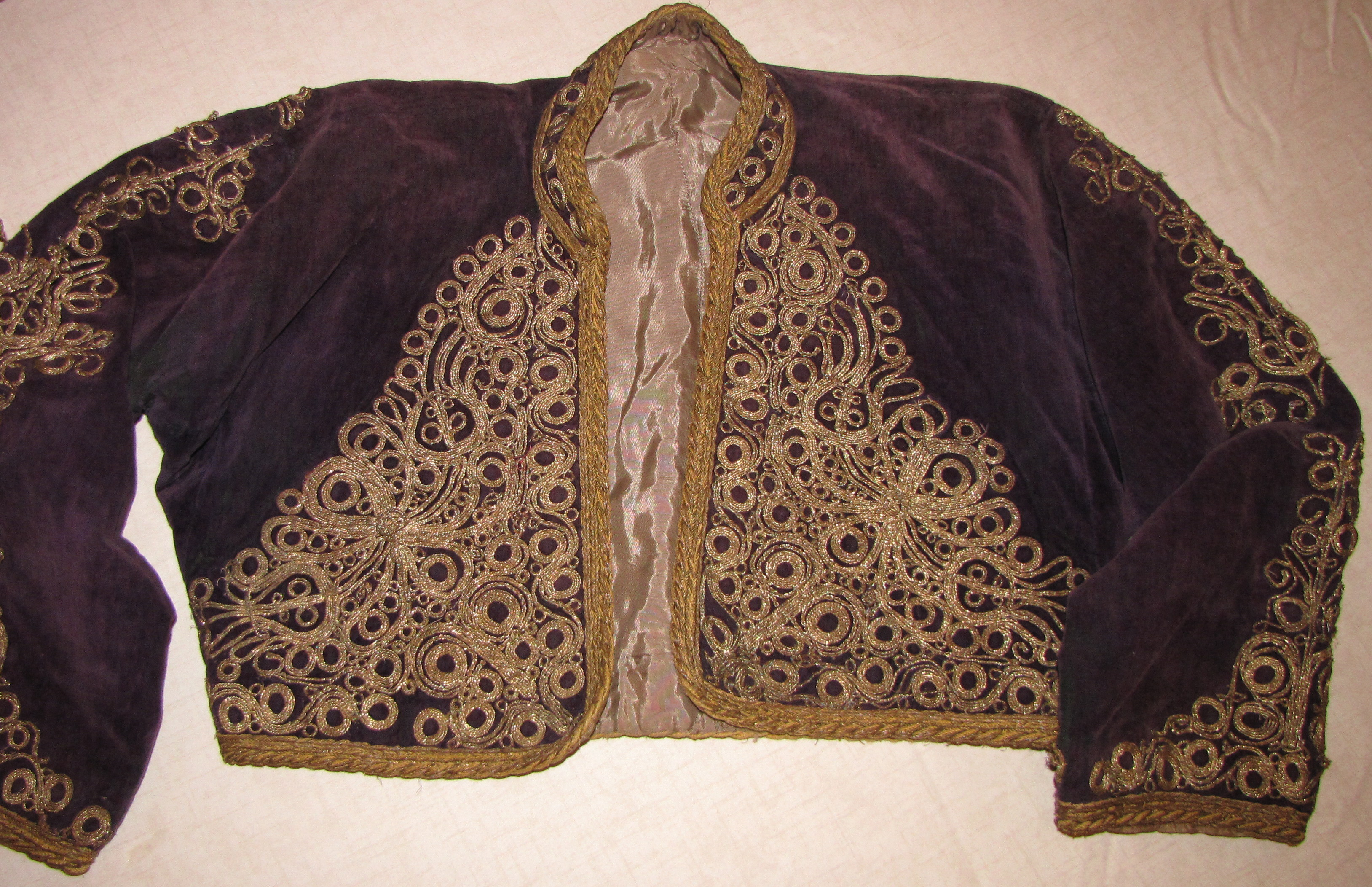 Traditional embroidered jacket, Syllogos Mikrasiaton Pierias